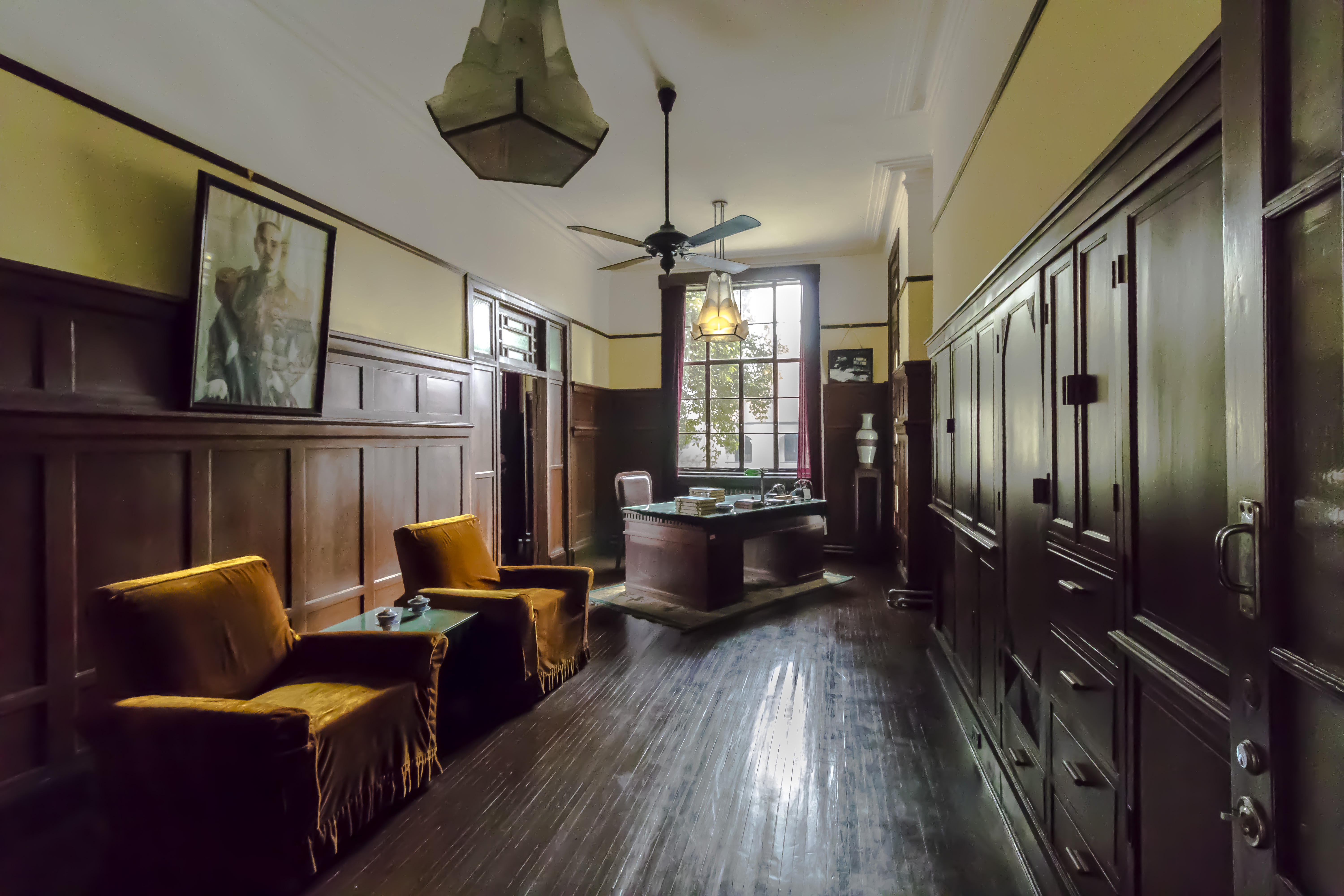 The Presidential Office in the Presidential Palace, Nanjing